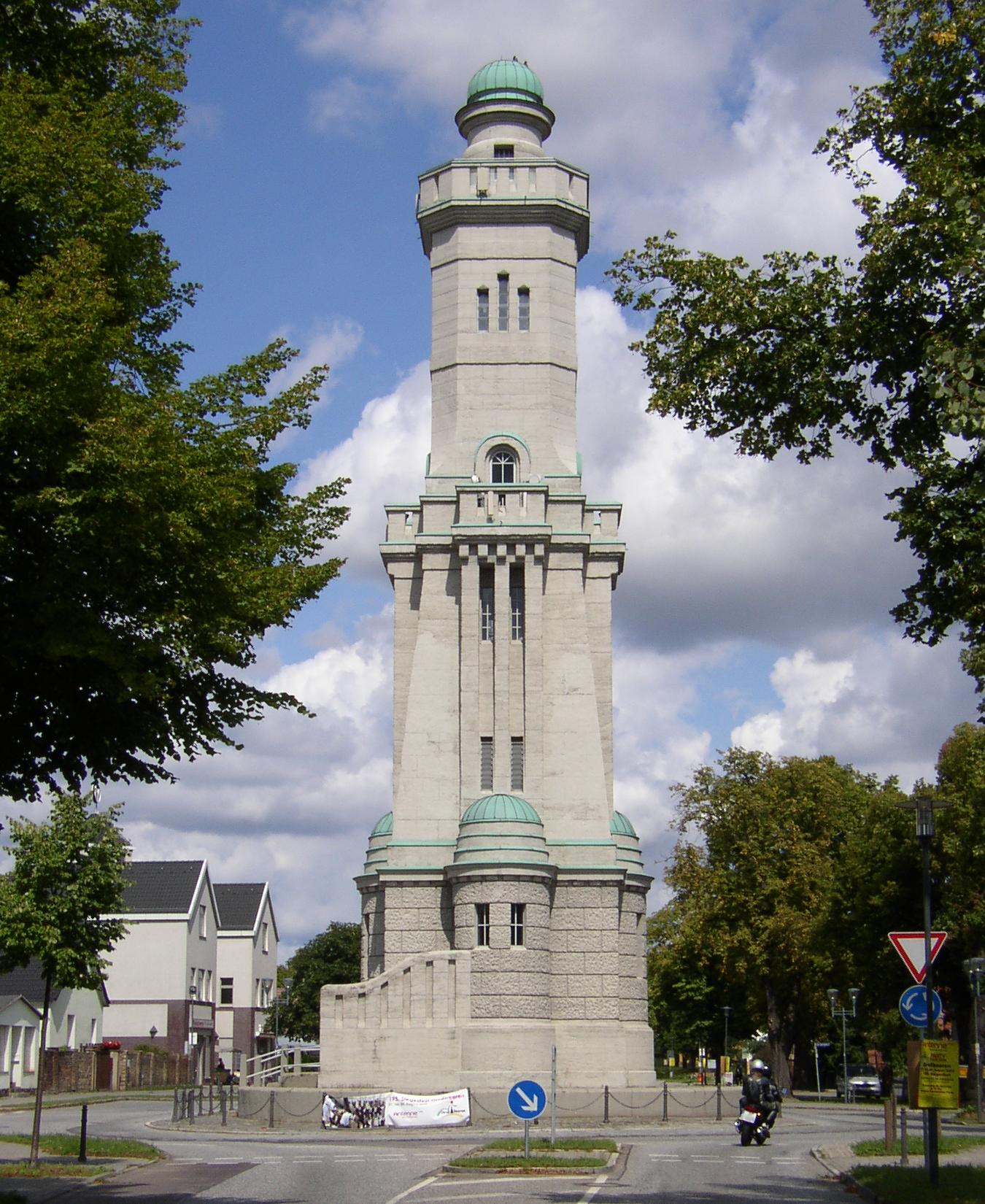 Memorial tower of the Battle of Großbeeren in Brandenburg, Germany